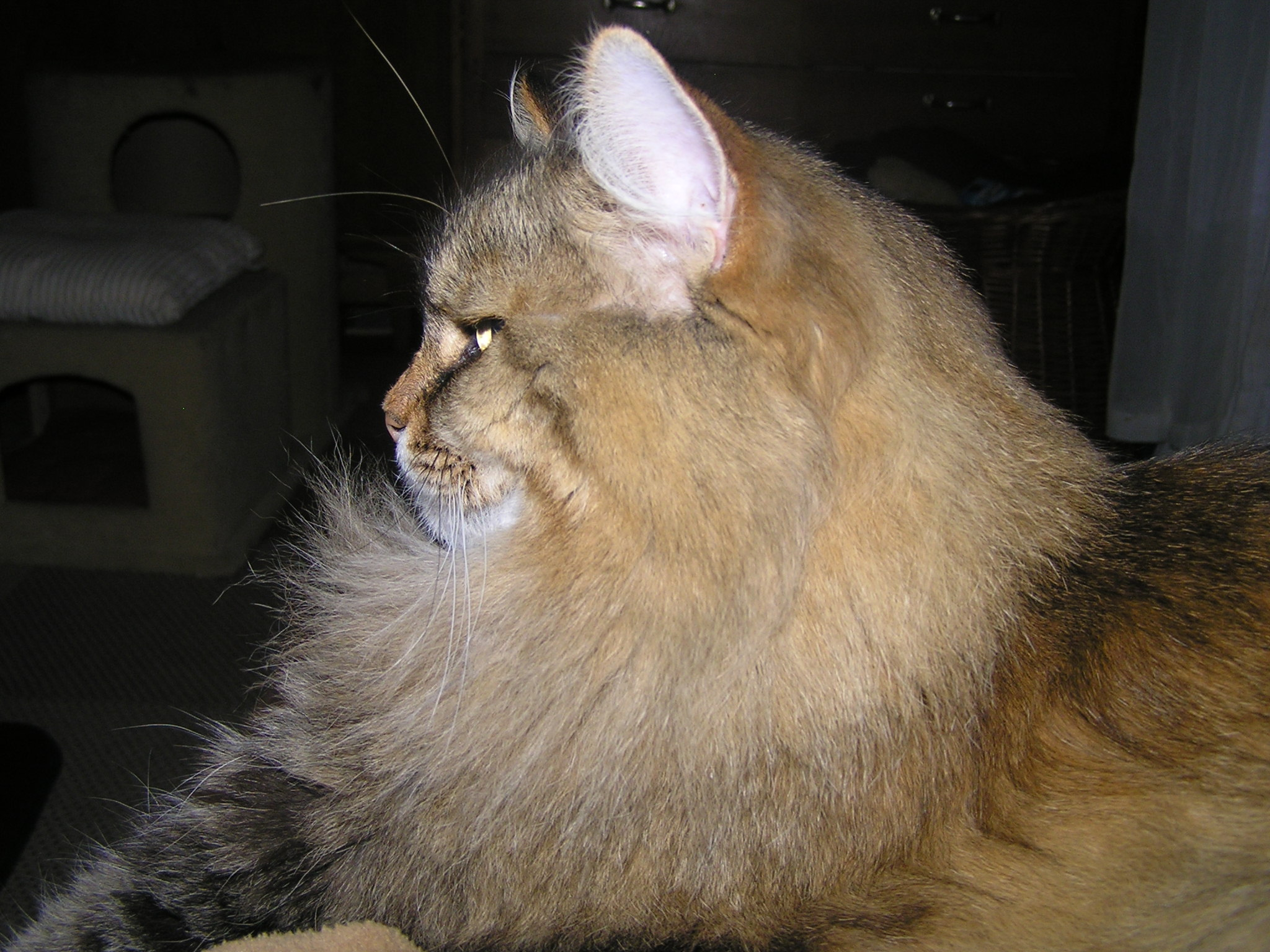 Face shot (profile) of Siberian Cat own of Cattery vom Hohen Timp